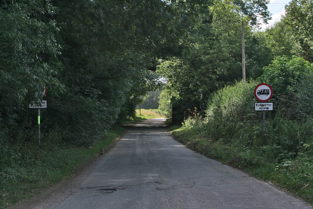 Dallygate Lane, Great Ponton. Looking through the railway bridge towards the site of the old Great Ponton station on the Grantham to London line.